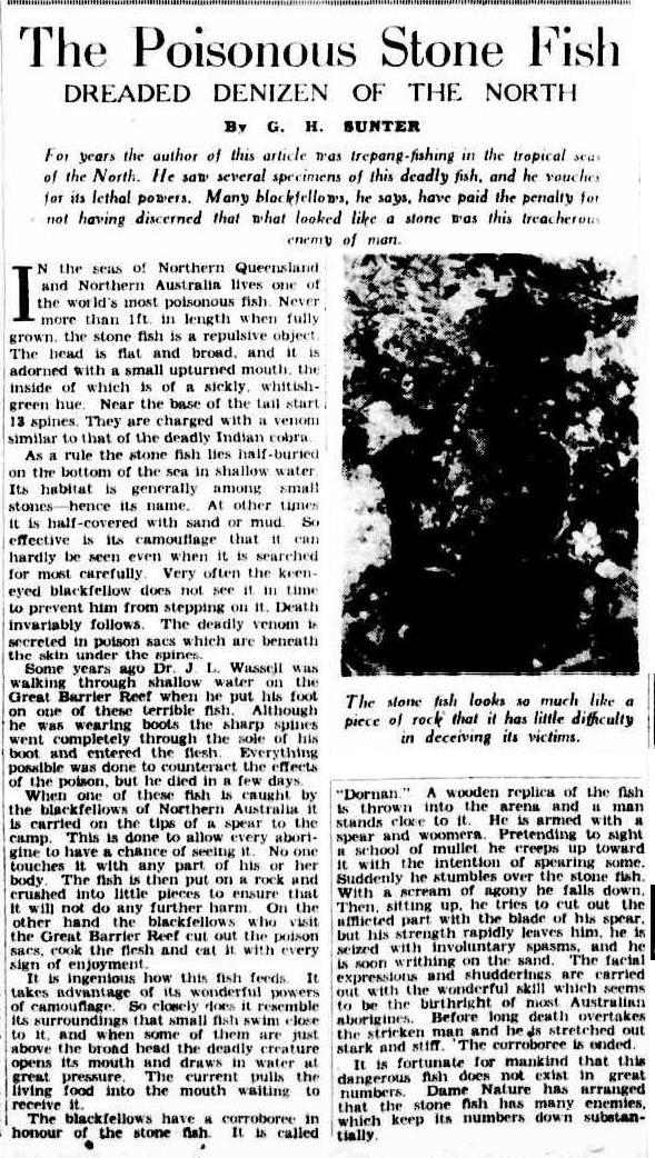 from the National Library Australian newspapers digitisation program which are pre-1955 so no copyright: "The service includes newspapers published in each state and territory from the 1800s to the mid-1950s, when copyright applies."